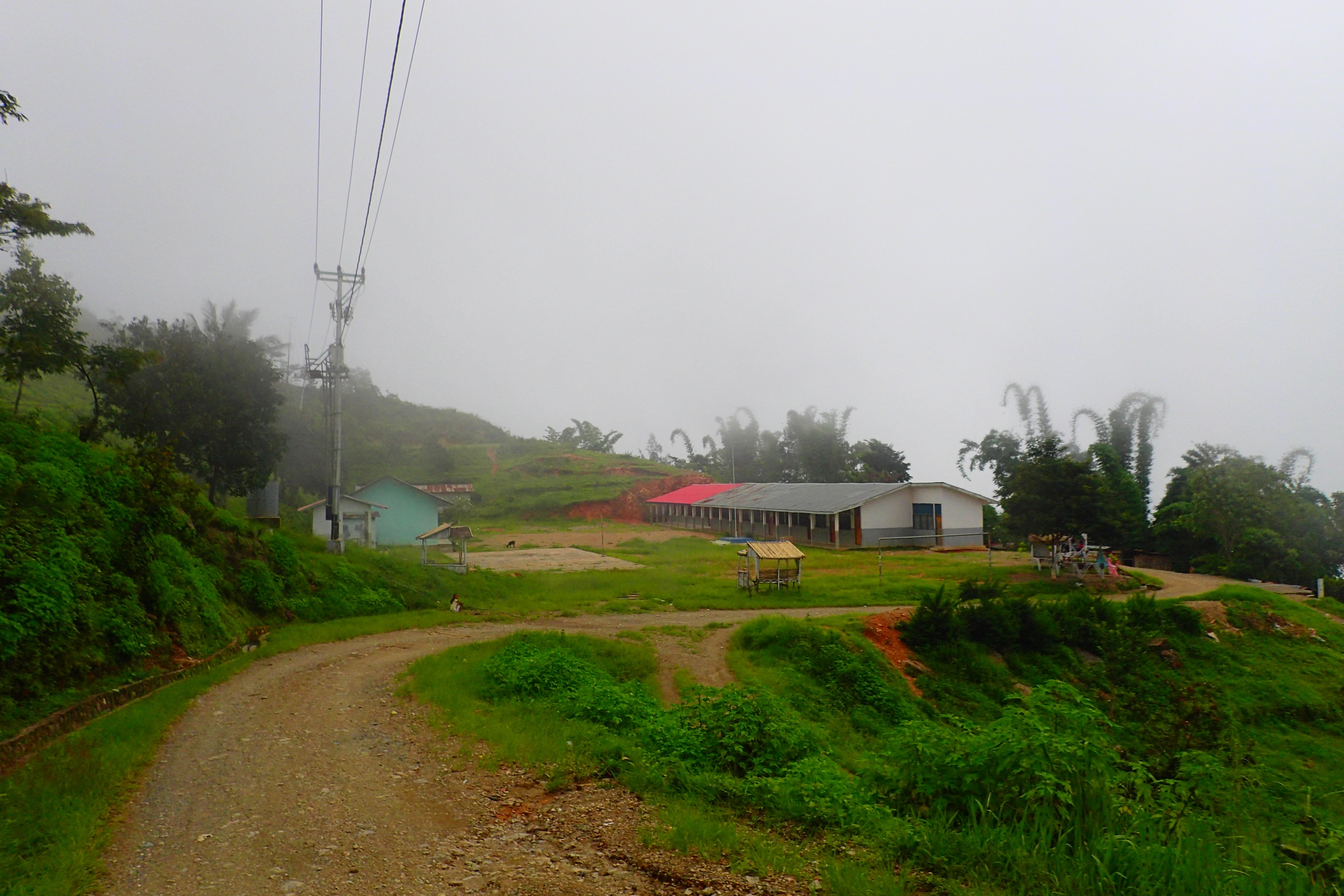 Railaco Leten school